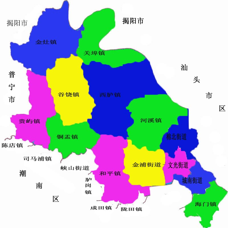 map of chaoyang district,shantou